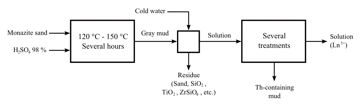 Schematic diagram of acid opening of monazite